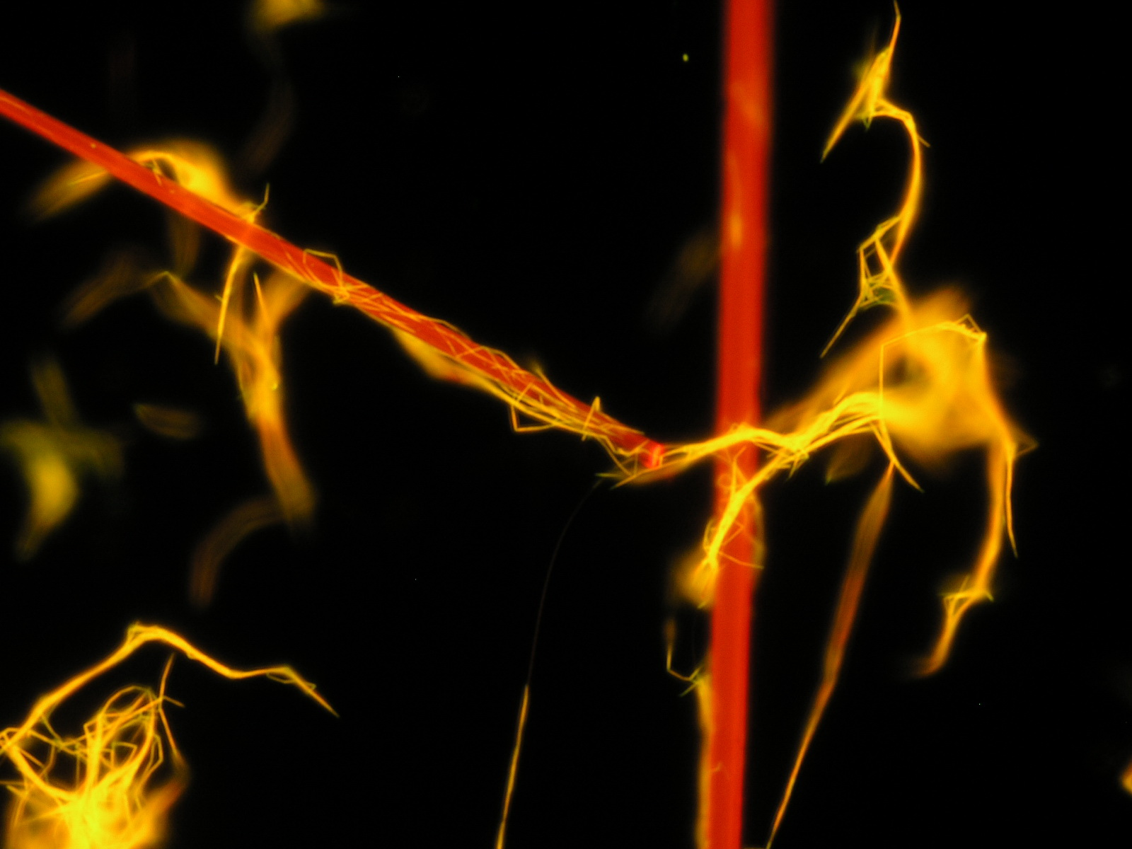 Luminescent molecular aggregates, called J-aggregates, is very interesting example of excitonic molecular nanoclusters. Their structure could be different and is strongly dependent on microenviromentment. In some cases fiber-like J-aggregates are agglomerated and transformed into light-guiding microcrystalites. On the picture a combination of fiber-like J-aggregates (yellow) and light-guiding microcrystallites (red) is shown.